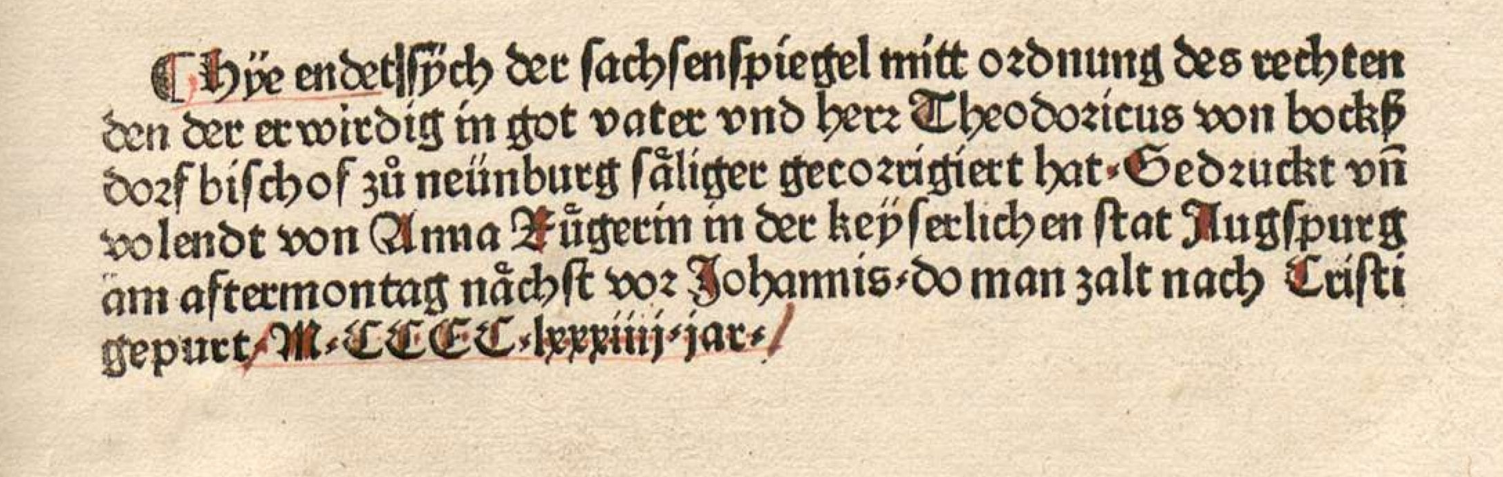 The colophon from "Sachsenspiegel: Landrecht," printed in Augsburg by Anna Rügerin, 22 June 1484. This five line description of printing details is the first documented evidence of a woman working as a typographer. The text reads: "Hie endet ſich der formalari darinn begriffen ſeind aller handbrief Gedruckt vnd vollendt zü Augſpurg von Anna Rügerin·am dornsstag näch vor ſant Peters gefengknus·des jars als manzalt nach criſti geburt M·cccc·lxxxiiij·jar."